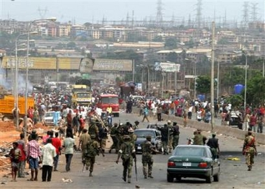 City of Onitsha